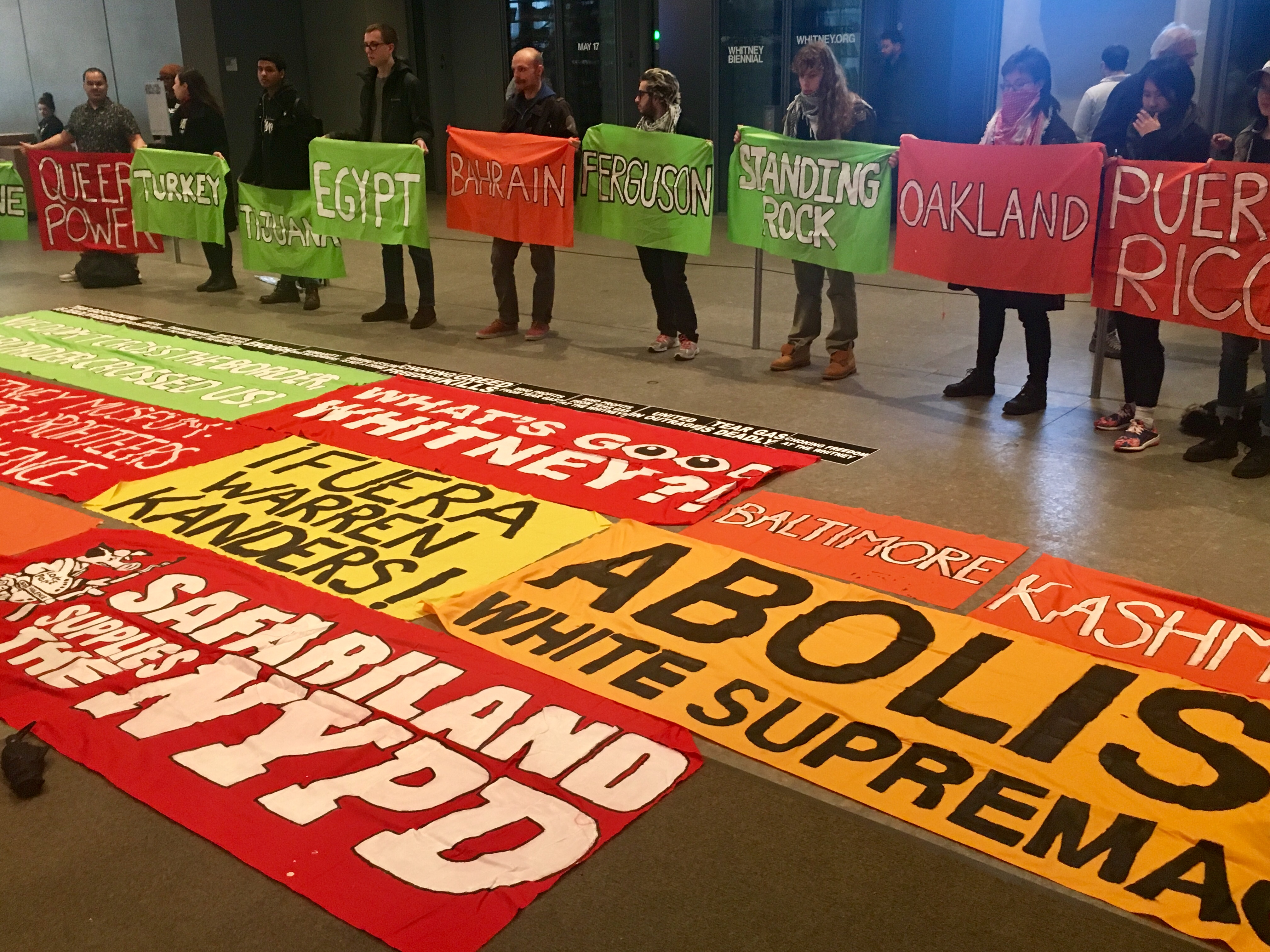 This photograph was taken at a gathering of protestors at the lobby of the Whitney Museum, New York, NY, on April 5, 2019. This gathering was the third in a series of events leading up to the 2019 Whitney Biennial, organized to demand that the museum remove Warren Kanders from the museum Board because of his role as owner of weapons manufacturer Safariland.